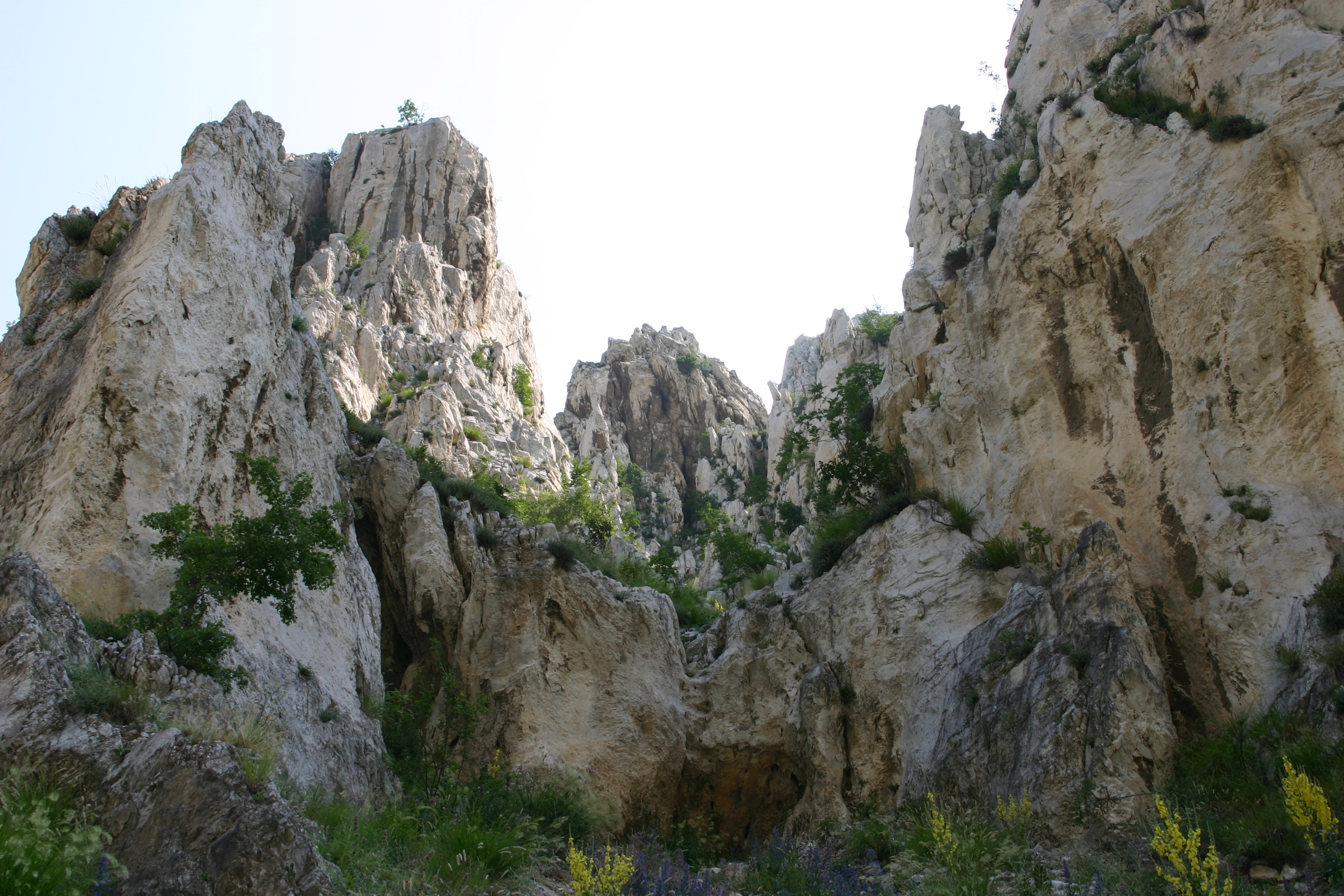 Gëlqeror Triasik në Grykën e Vanave, Kukës